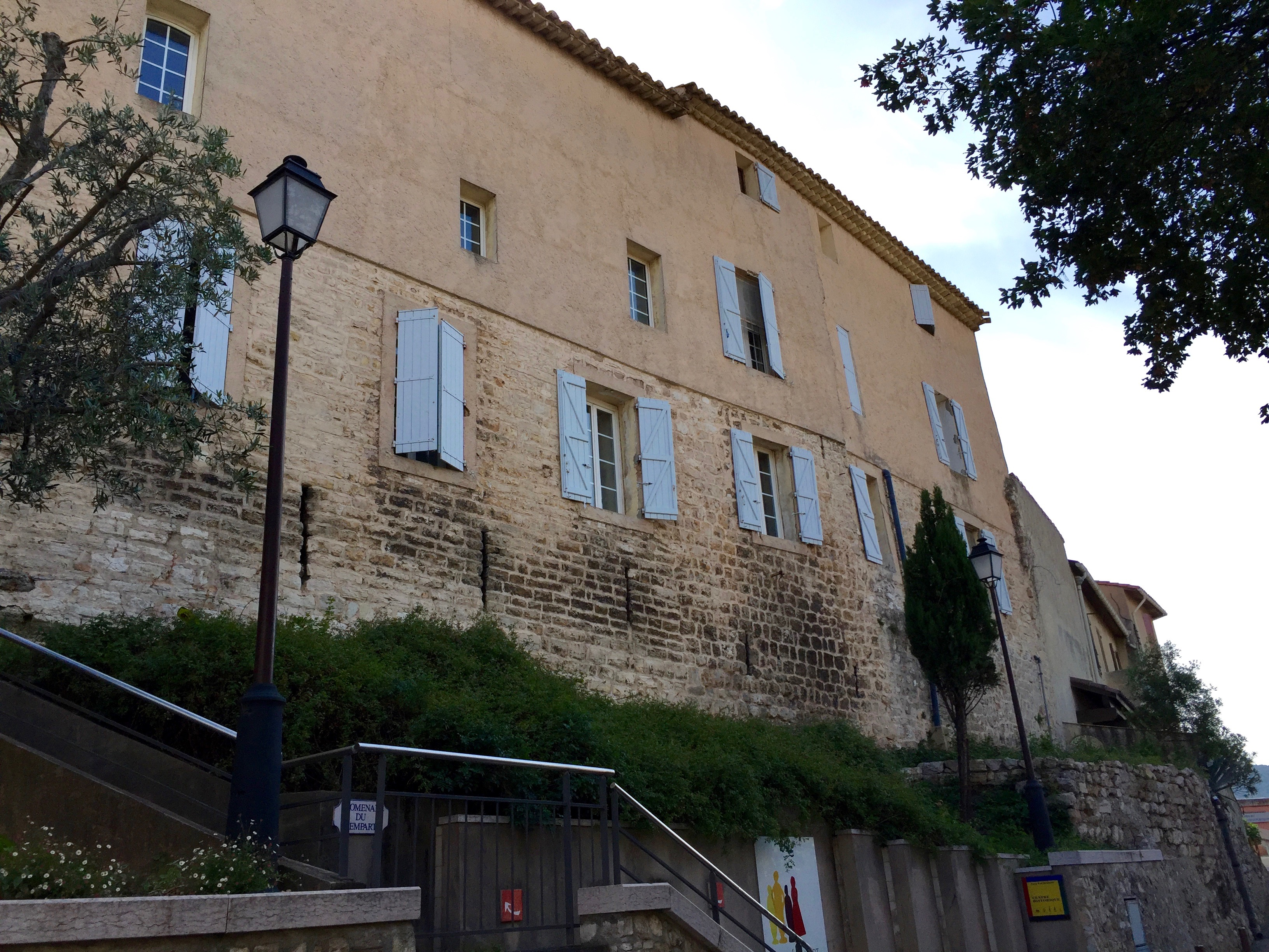 Former city walls of Aubagne